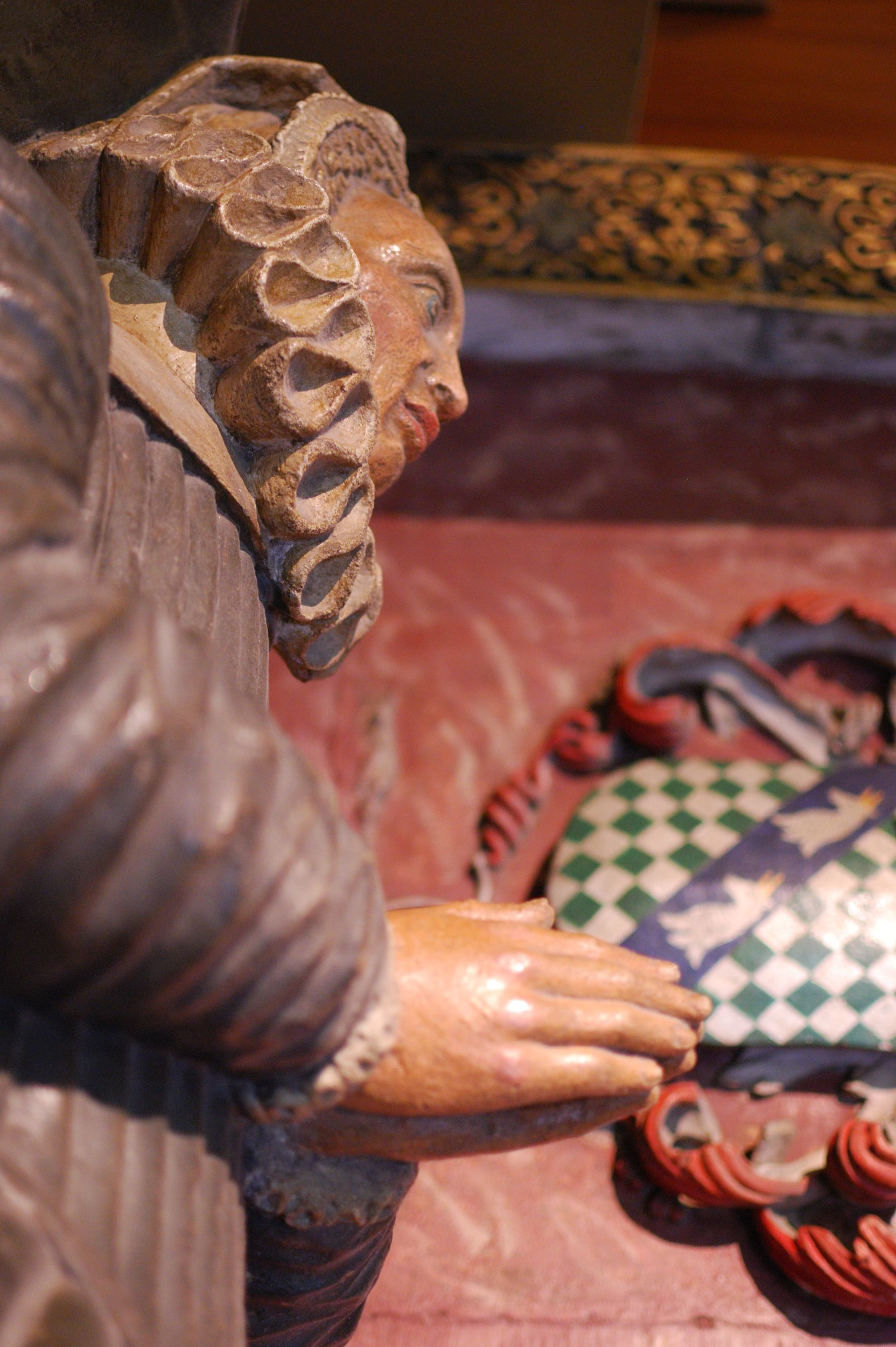 Tomb of John and Joan Young, Bristol Cathedral. Arms of Young of Bristol: Lozengy argent and vert, on a bend azure two ibex's heads and necks erased of the first (Maclean, Sir John, Notes on the Family of Yonge, or Young, of Bristol, and on the Red Lodge, Transactions of Bristol and Gloucestershire Archaeological Society, Volume 15, p.237, footnote 1 [1])